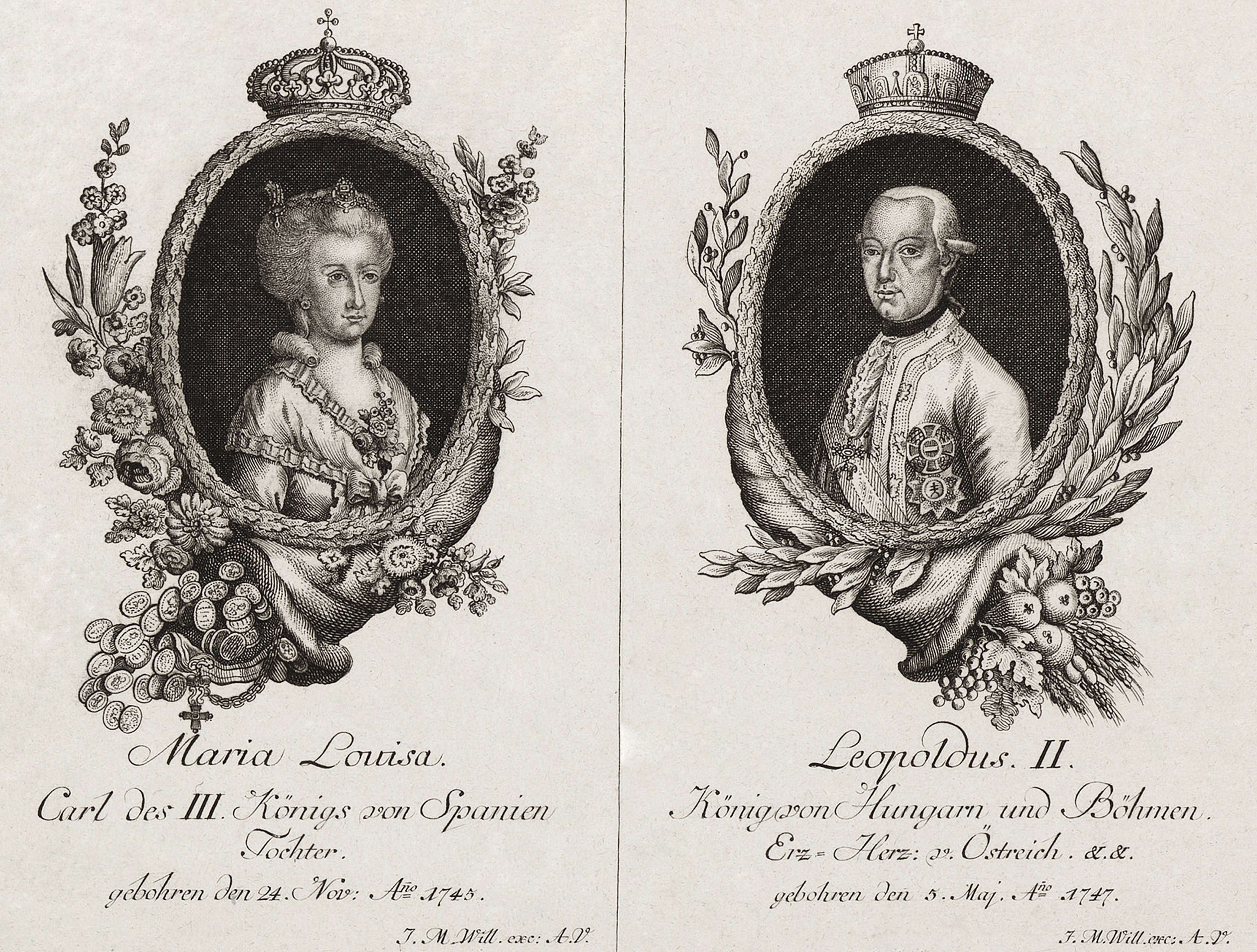 Maria Louisa....Leopoldus II (Holy Roman Emperor and His Consort)